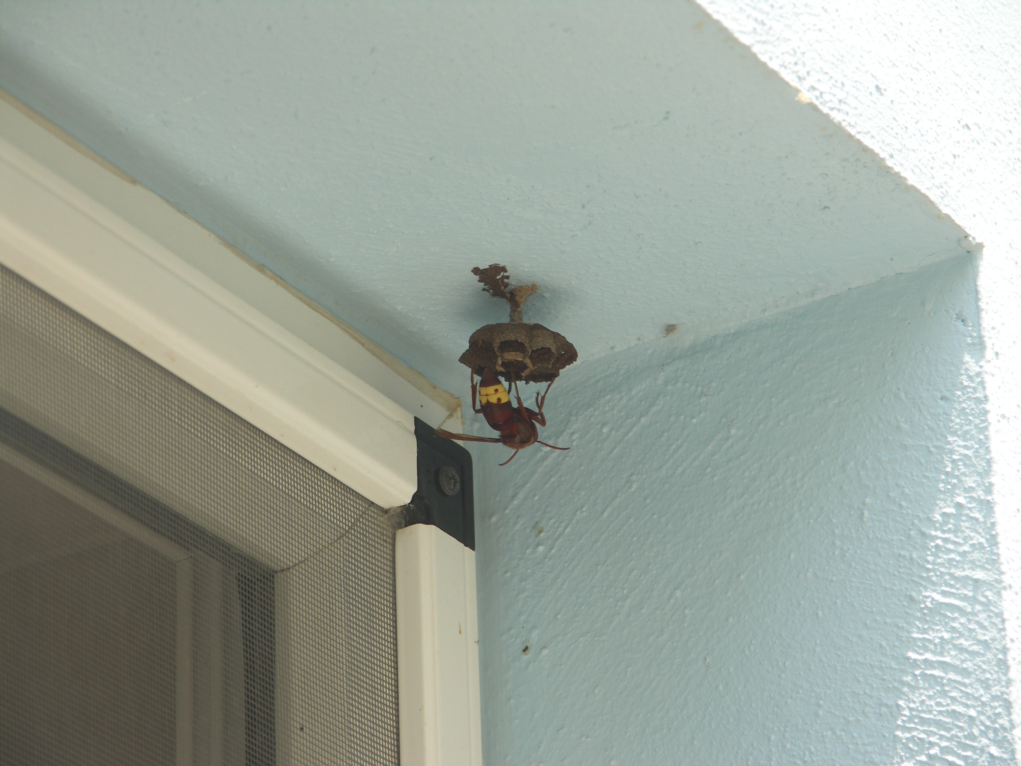 Queen of vespa orientalis. Found on 2007-05-27 in Afantou, Rhodes, Greece